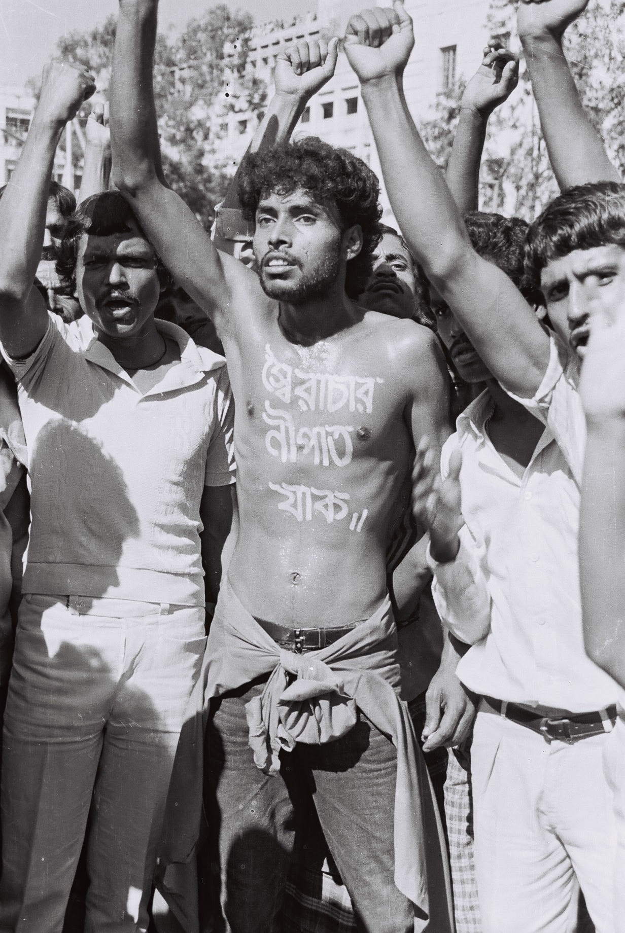 Noor Hossain protesting shortly before he was shot to death by police on 10th November 1987Slogan: “Shoirachar Nipat Jaak” (Down with autocracy) inscribed in white paint on Noor’s chest, photo taken in front of GPO @ Zero Point Dhaka Nov-10-1987 - This photo also been used to publish as a postal stamp, later date.